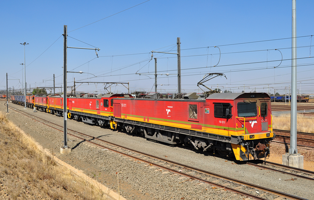 Transnet Freight Rail Class 19E (in the foreground No. 19-011) at Ermelo, Mpumalanga (South Africa)